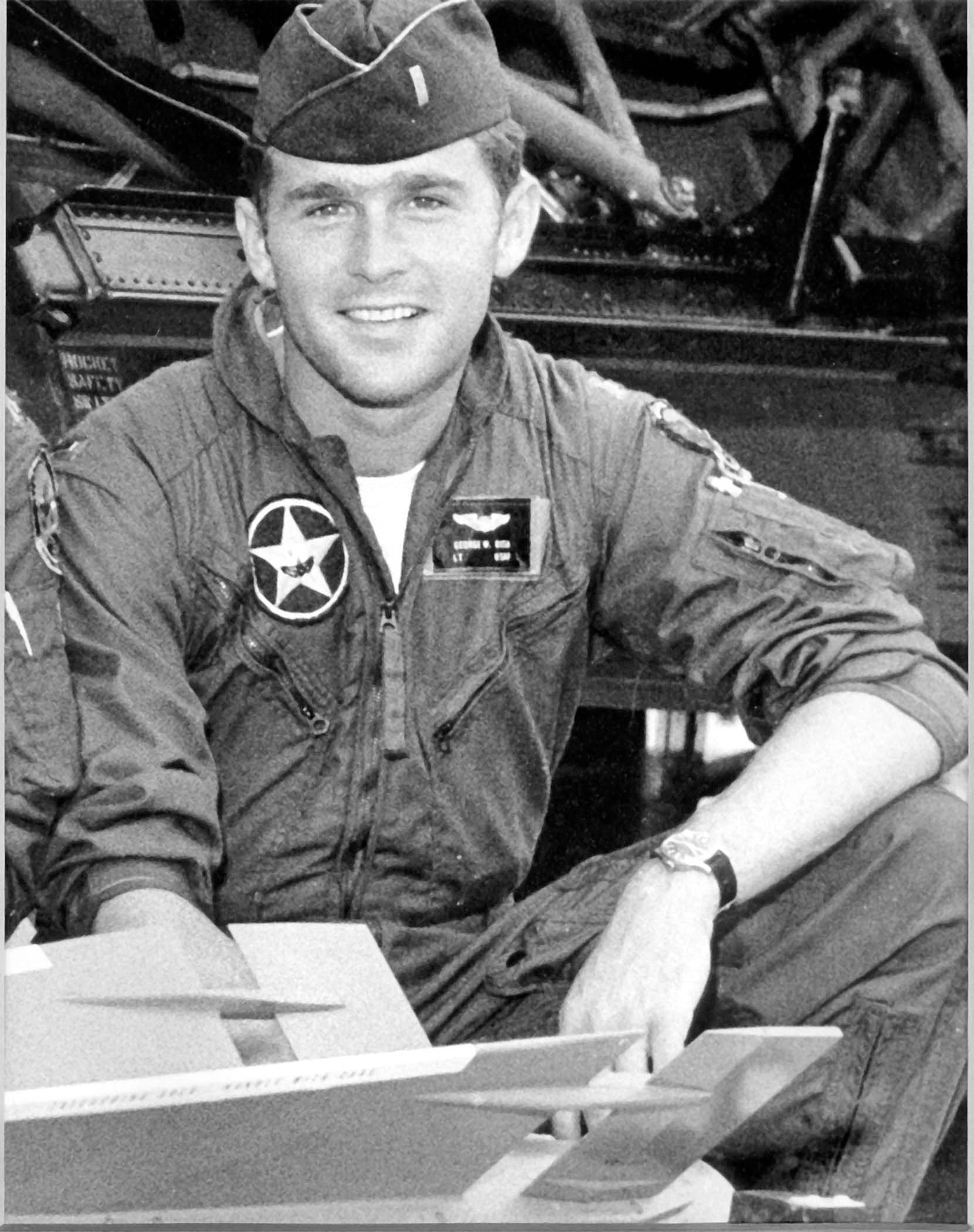 Texas Air National Guard 1st Lt. George W. Bush flew F-102 Delta Dagger fighter jets from 1970 to 1973 with the 111th Fighter Interceptor Squadron, Ellington Air Force Base, Texas. Photo courtesy Texas Air National Guard